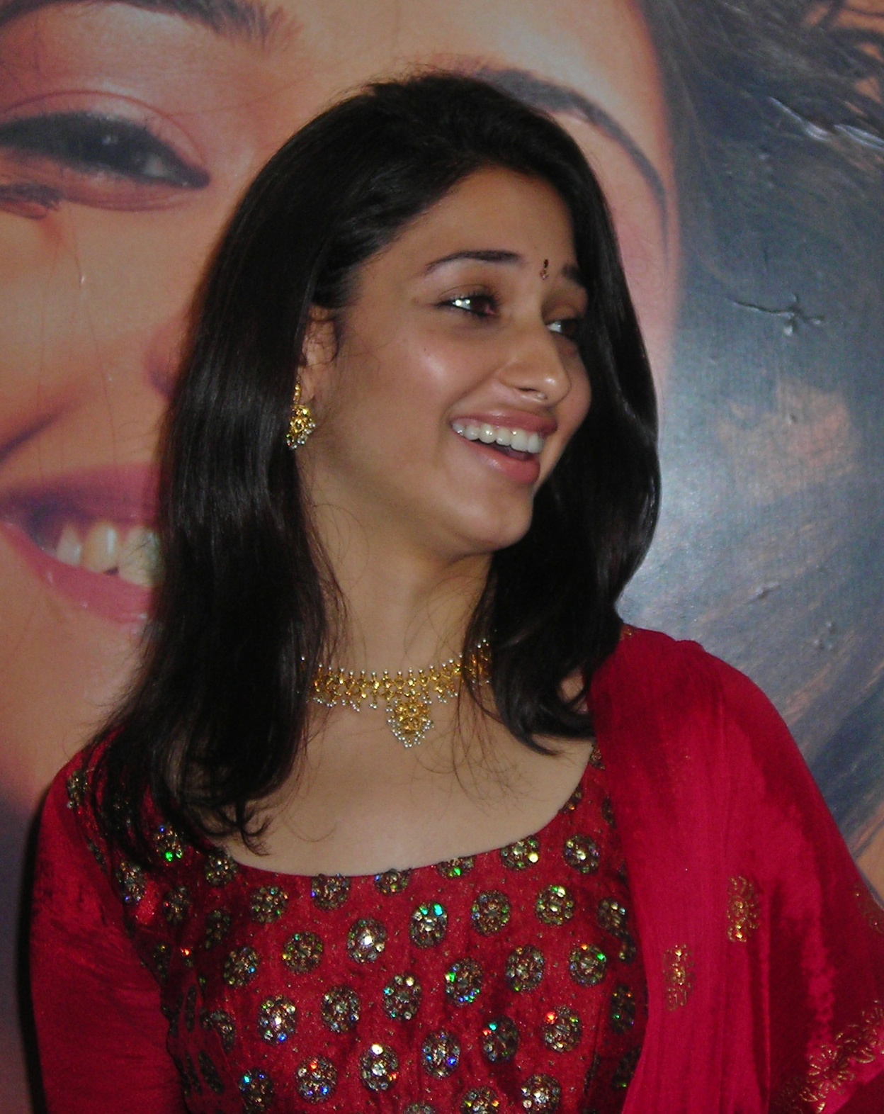 taken at the opening of a beauty parlour at Chennai, before the release of Padikkadhavan, with Dhanush.